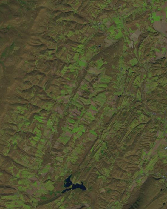 Landsat image of Chestnut Ridge, a ridge in Bedford County, Pennsylvania. Shawnee Lake is at bottom center.